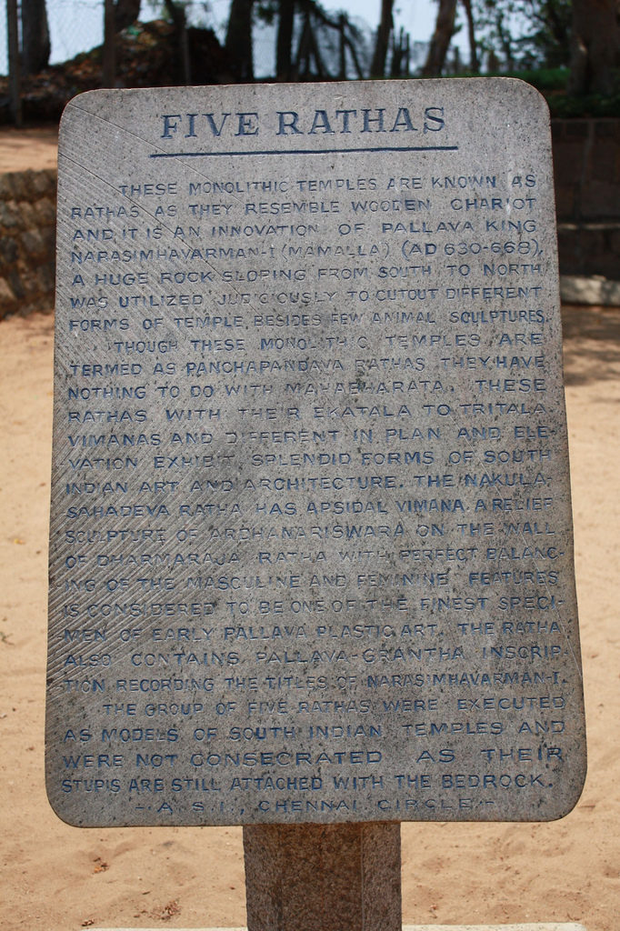 Five Rathas, Mahabalipuram